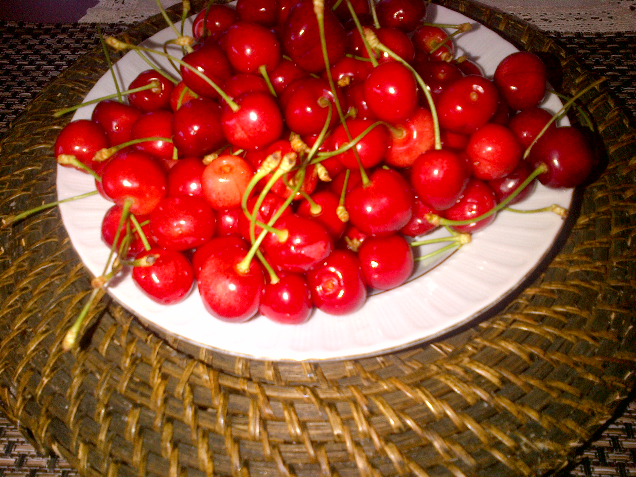 Home-grown sweet cherries in Ankara.